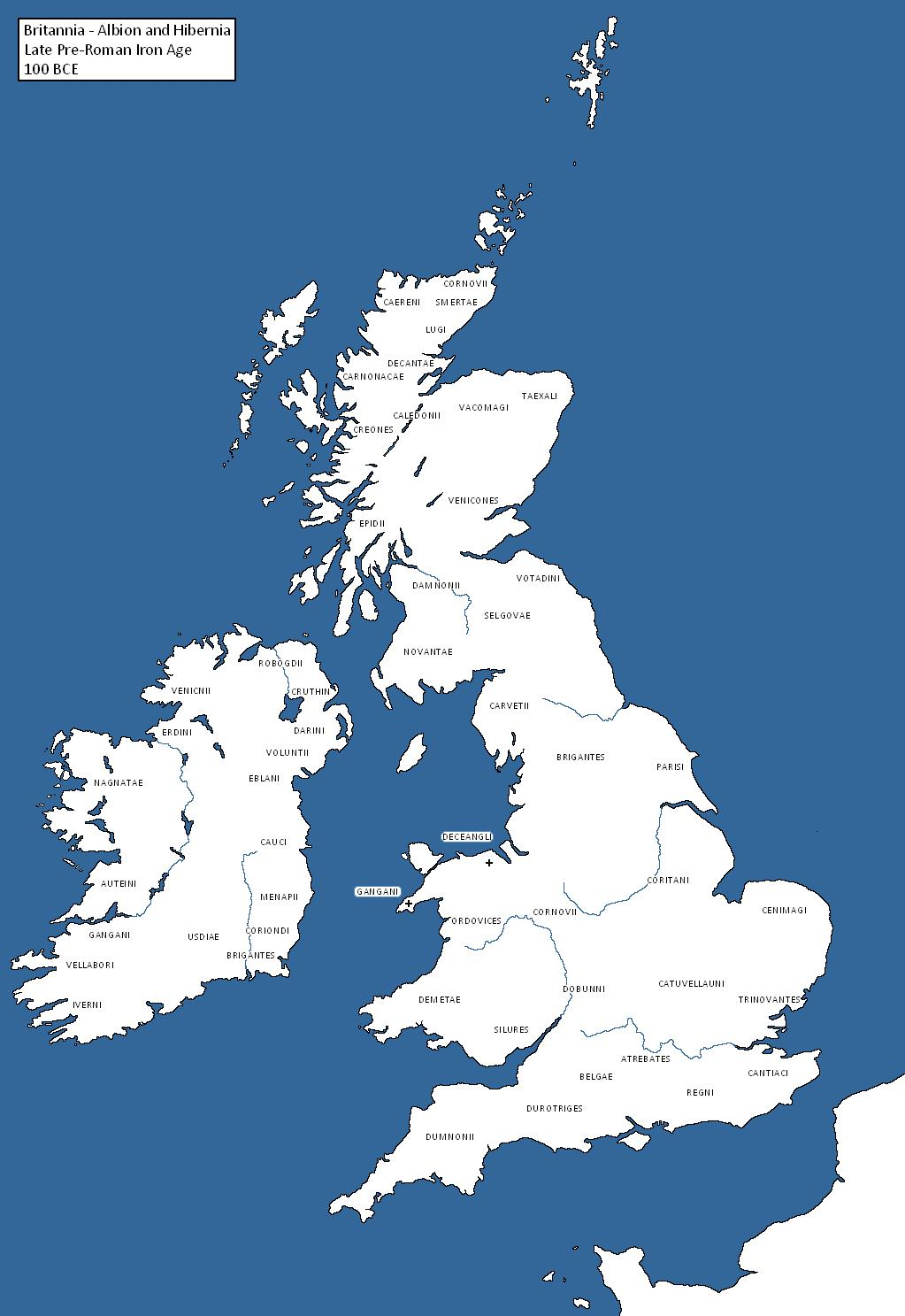 This is a map showing the Iron Age peoples of Britain and Ireland in 100 BCE